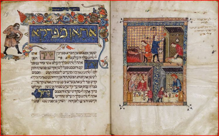 The Rylands Haggadah: The Preparation of the Paschal Lamb and the Marking of the Door (above); The Celebration of the Seder (below) [fols. 19v-20r] Medium: Tempera, gold, and ink on parchment Dimensions: Overall: 11 1/2 x 9 5/8 x 1 7/16 in., 5.732lb. (29.2 x 24.5 x 3.7 cm, 2.6kg)